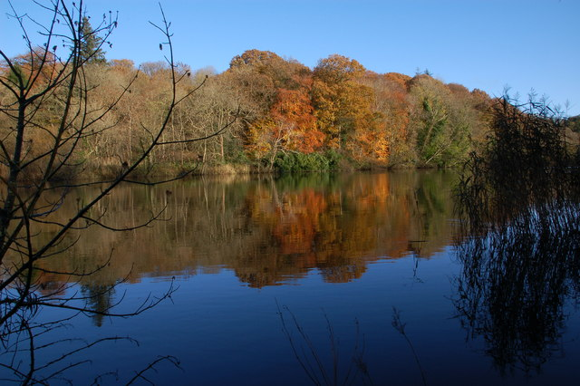 River Bann at Castleroe, near to Mill Loughan, Fish Loughan and Loughan, Ireland. The Bann is well wooded over the last few miles before Coleraine. The section at Castleroe has woodland on both sides of the river. This is the view upstream with the last of the autumn colours on display.